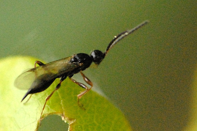 Exallonyx ligatus from Commanster, Belgian High Ardennes .